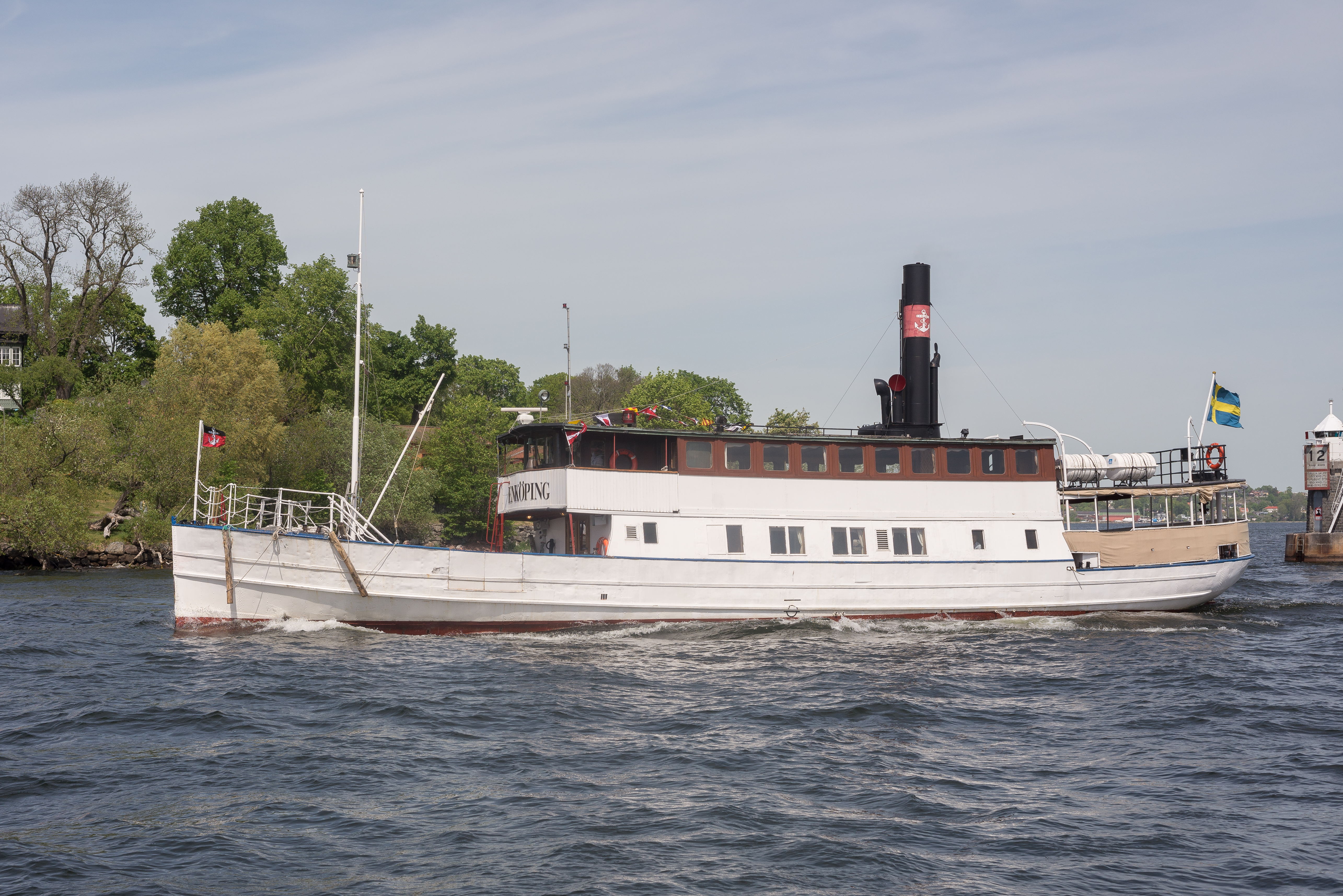 The historic ferry Enköping built 1868. In the background, Blockhusudden.